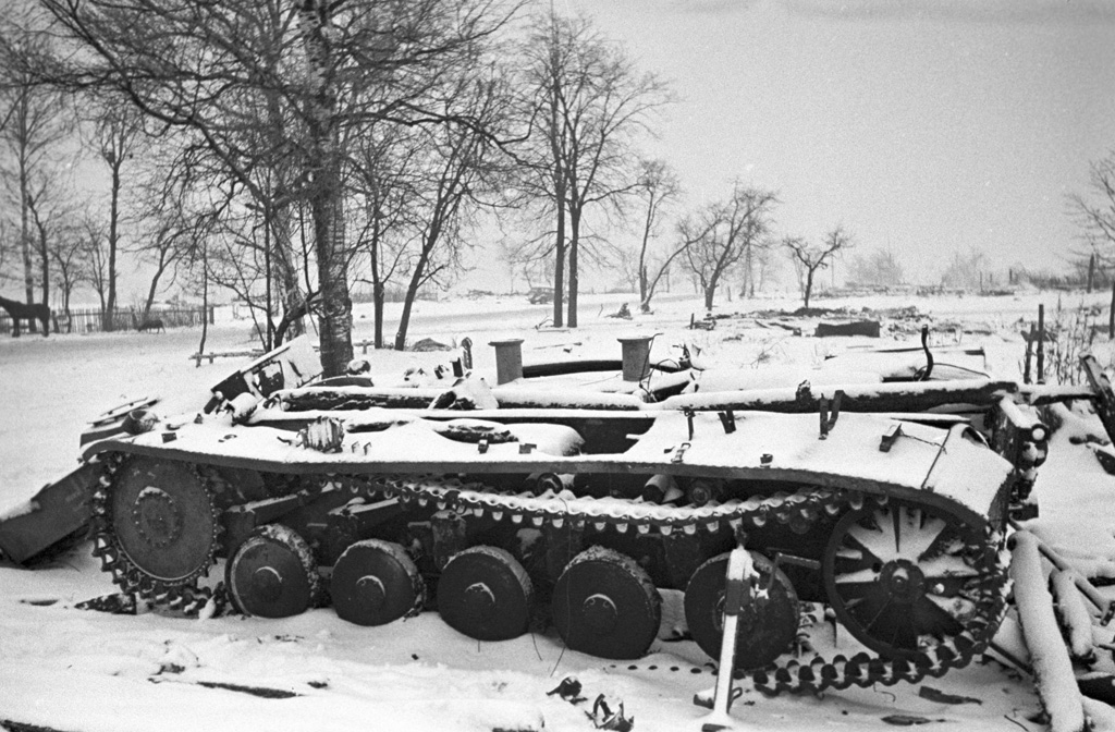 “A smashed Panzerkampfwagen II ”.